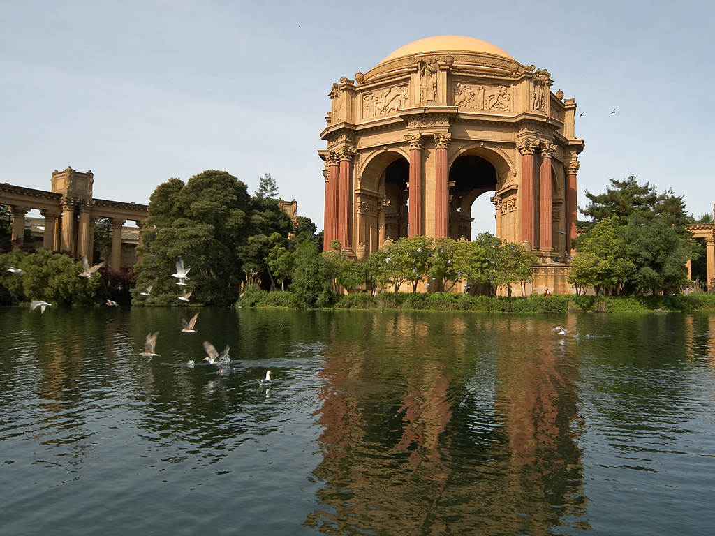 The "Palace of Fine Arts" in San Francisco at the border between Marina District and the Presidio. Originally erected for the 1915 Panama-Pacific-Exposition, reconstructed in the 1960's, recently renovated. In the background the crescent shaped Exposition Hall, now home of the "Exploratorium".